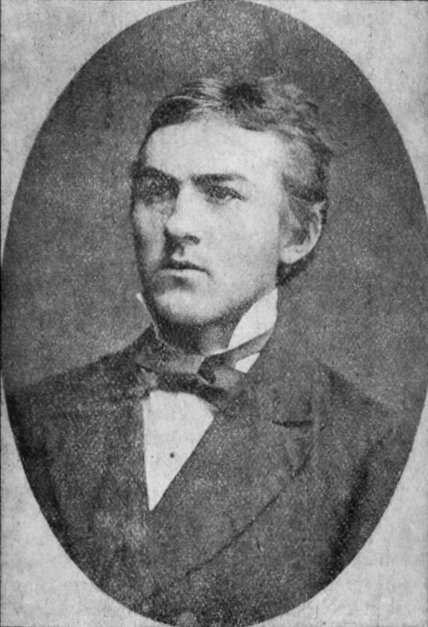 Josef Karel Šlejhar (1864–1914) as a student.